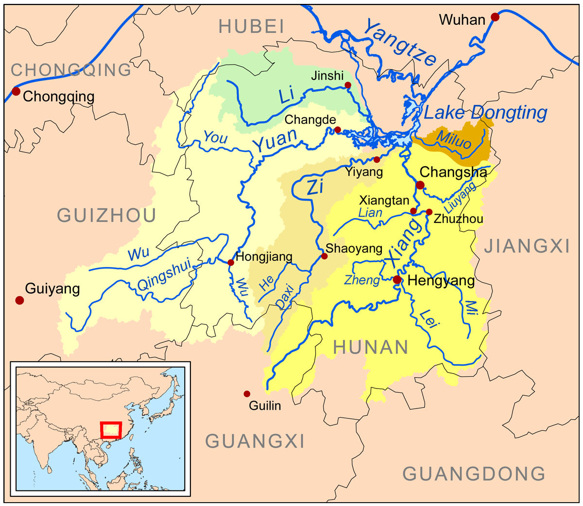 This is a map of the major rivers flowing into Lake Dongting; the Xiang, Zi, Yuan, Li and Miluo rivers.